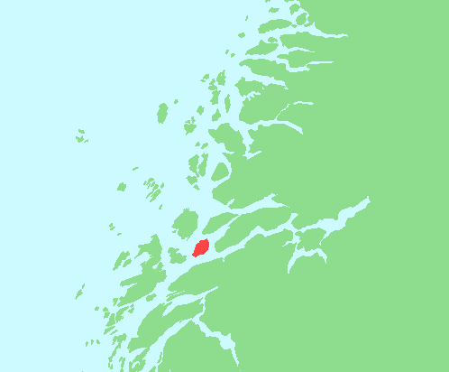 Locator map of Hugla, Nordland, Norway